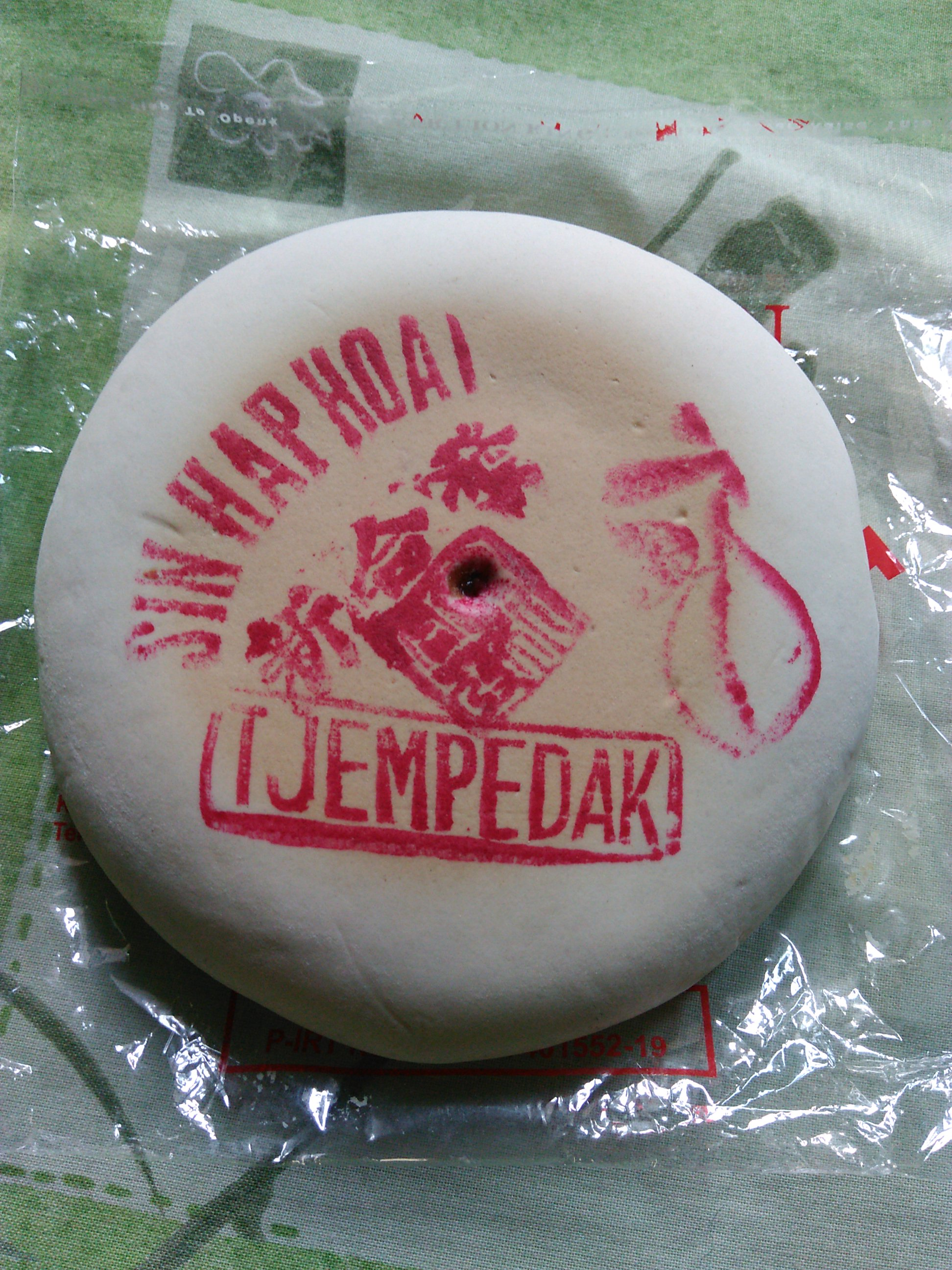 Sin Hap Hoat brand, Hokkien style mooncake from Jakarta, Indonesia. Bân-lâm-gú: 印尼巴城福建式个月餅"sin-hap-hoat".